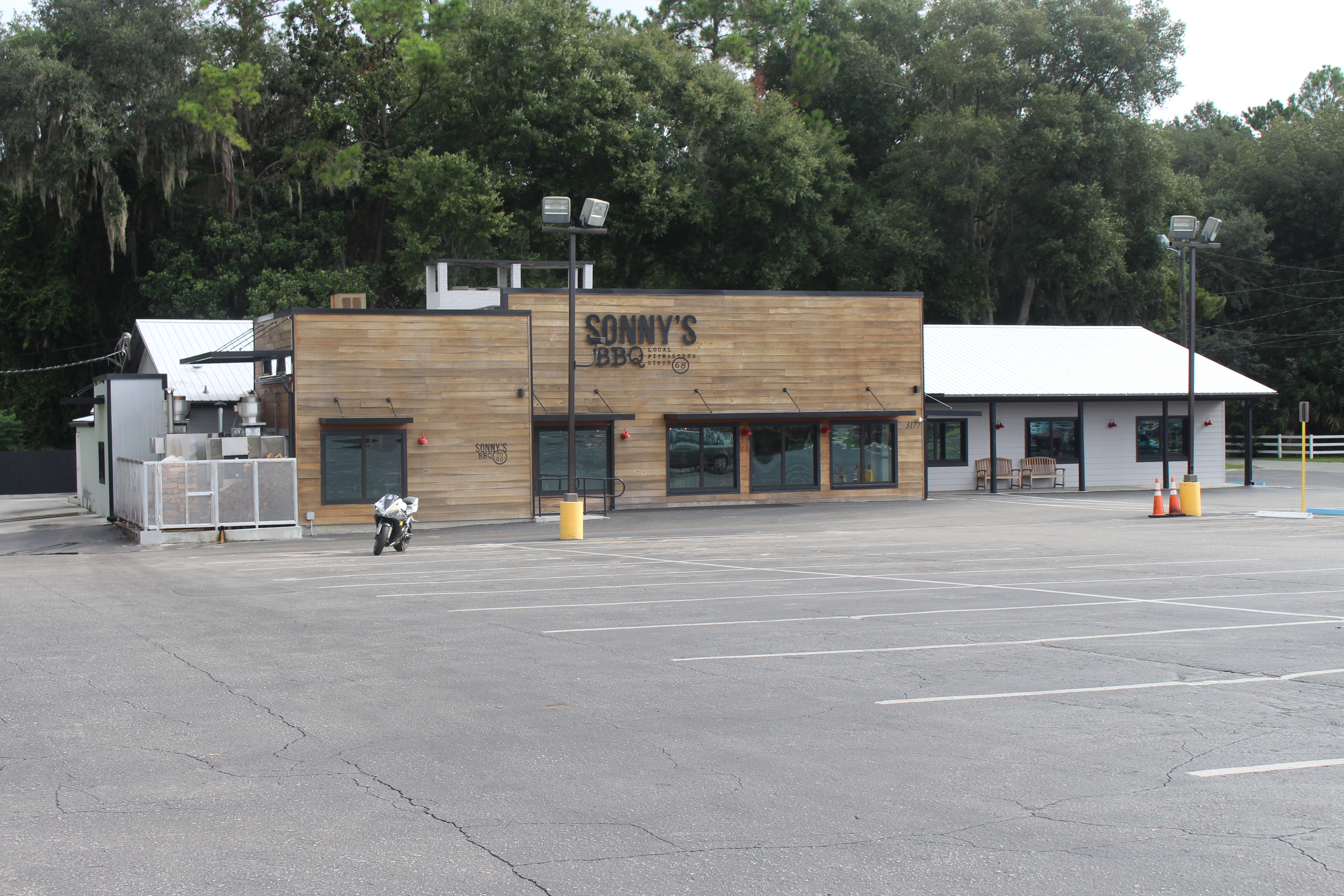 Sonny's BBQ, US90, Lake City, Columbia County, Florida